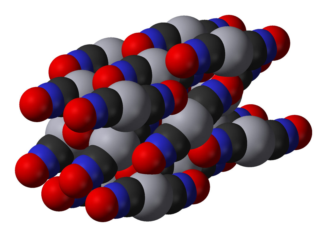 Space-filling model of part of the crystal structure of mercury(II) fulminate, Hg(ONC)2. X-ray diffraction data from W. Beck, J. Evers, M. Göbel, G. Oehlinger and T. M. Klapötke (2007). "The Crystal and Molecular Structure of Mercury Fulminate (Knallquecksilber)". Zeitschrift für anorganische und allgemeine Chemie 633 (9): 1417-1422.